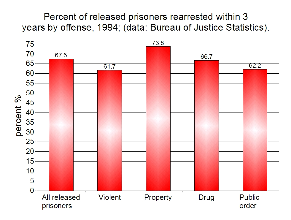 This is a chart showing recidivism rates for prison inmates in the U.S. in 1994.